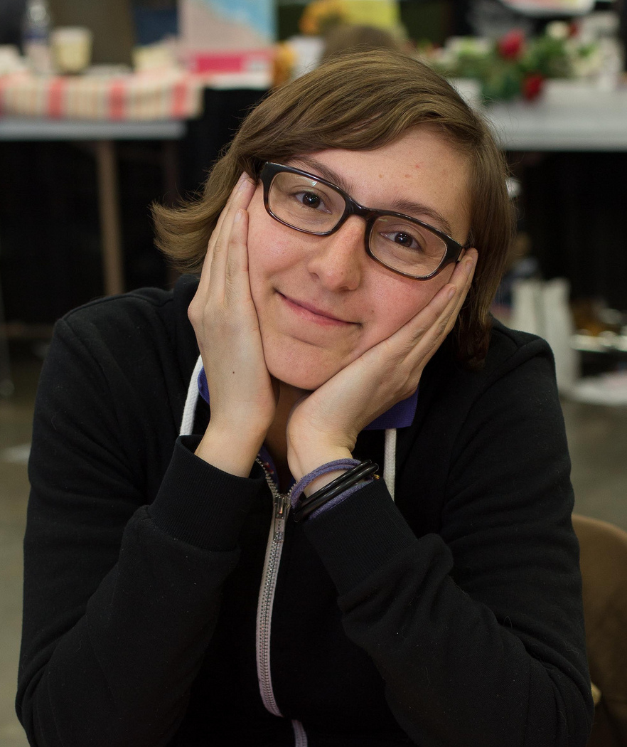 Liz Prince at the Stumptown Comics Festival